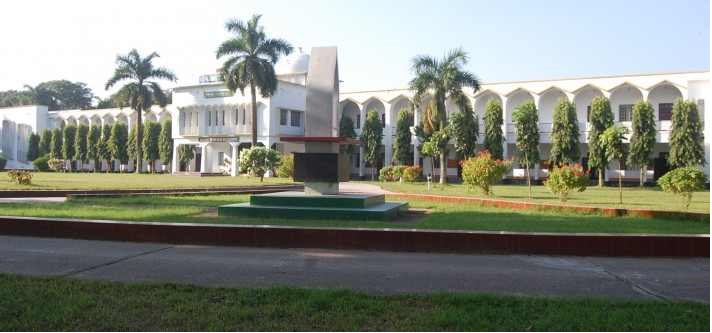 RCC Academic Building